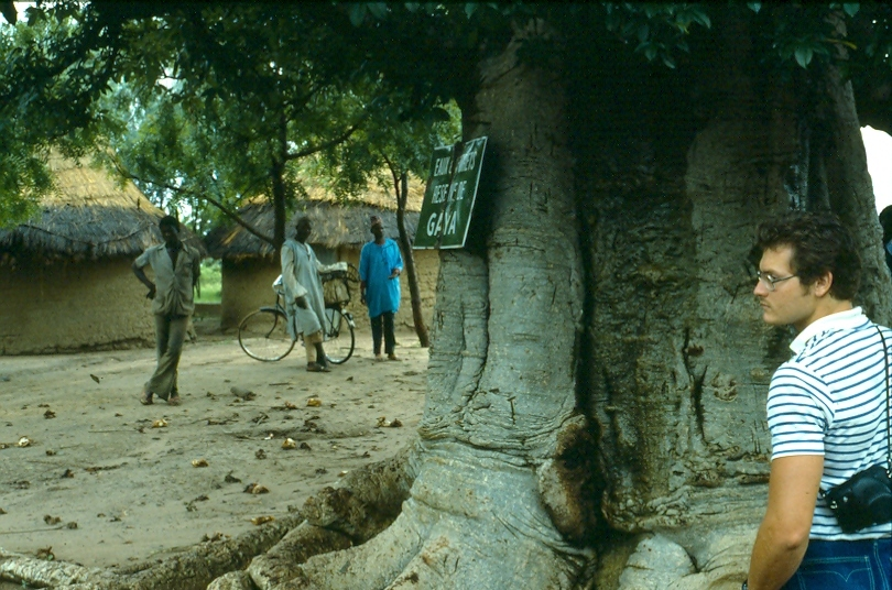 Baobob Tree in Kuka Mai Lumba, Niger, West Africa